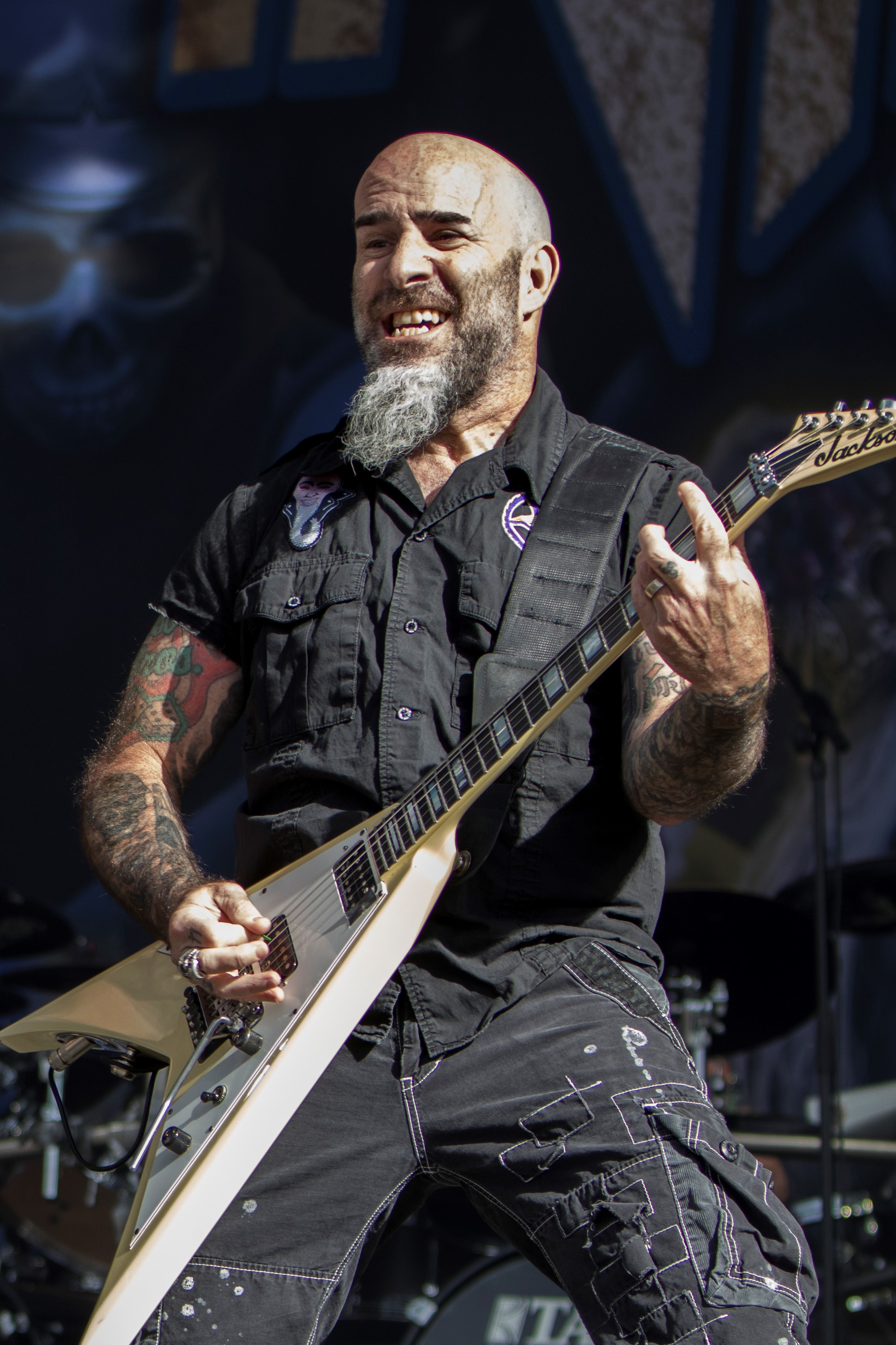 A cropped version of File:Anthrax Tuska 2019 (1).jpg